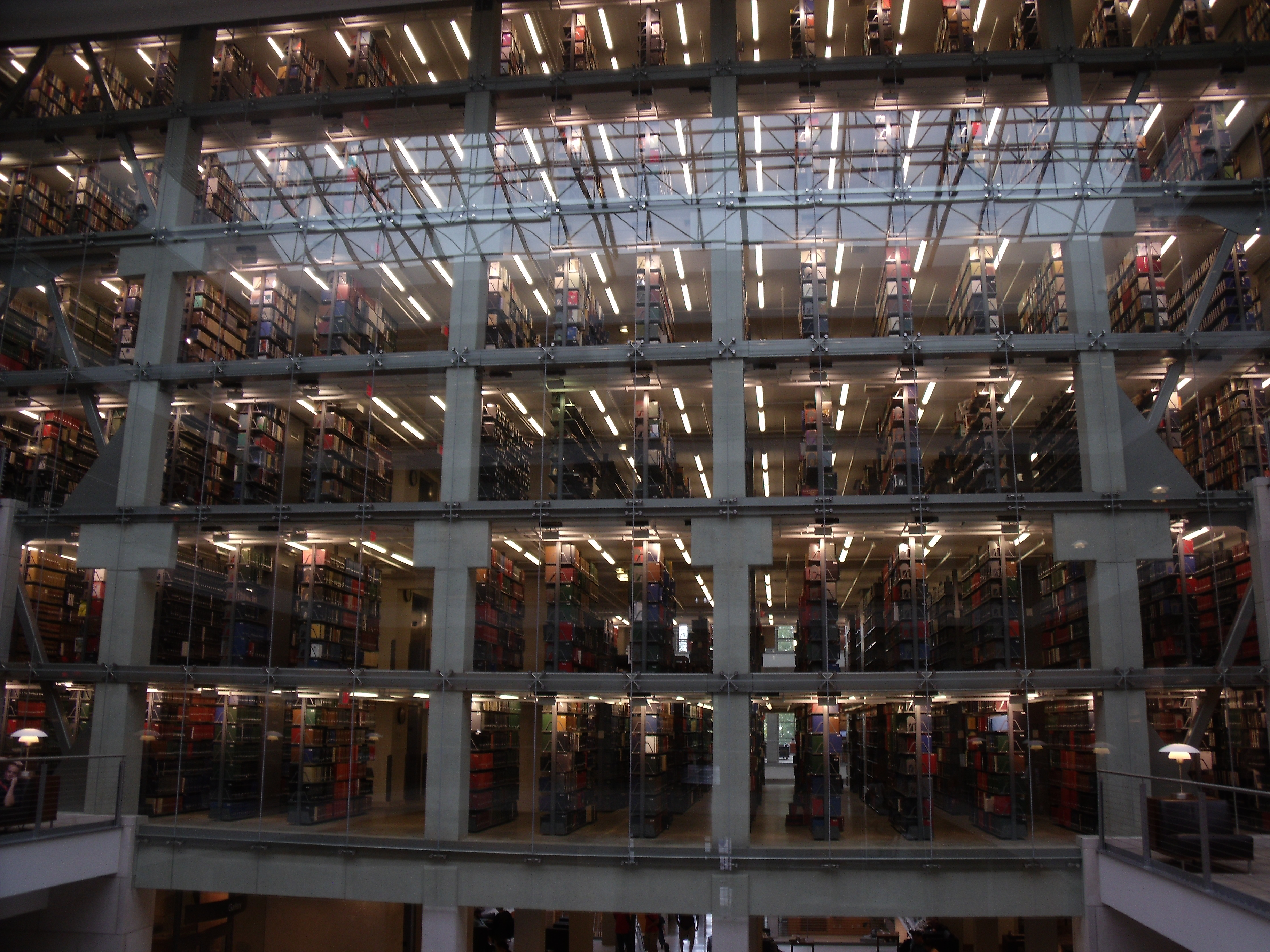 The stacks at the William Oxley Thompson Memorial Library, as viewed from the East Atrium